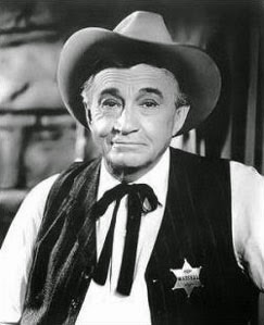 Paul Fix in "The Rifleman" TV series.